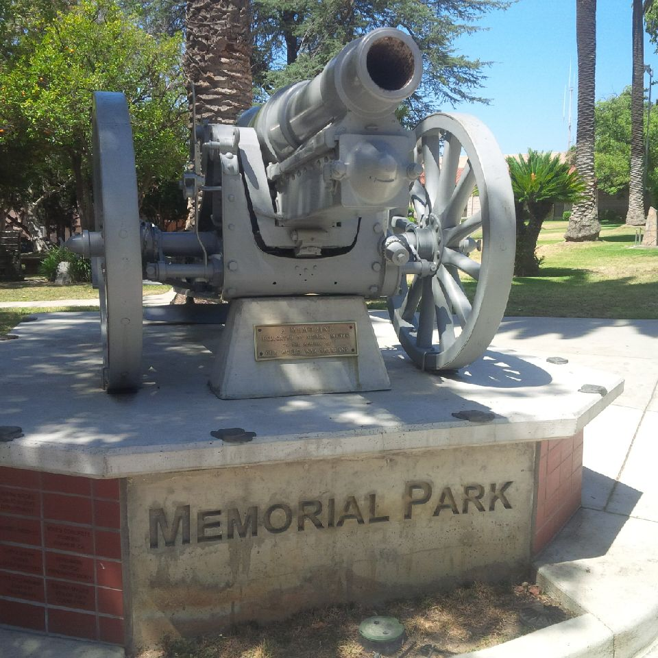 At Sierra Madre Memorial Park, 1905 World War I Krupp Cannon 150mm field artillery cannon, in Sierra Madre, California. Other information Place in park 1926, In October of 2007 the refurbished cannon was re-dedicated.